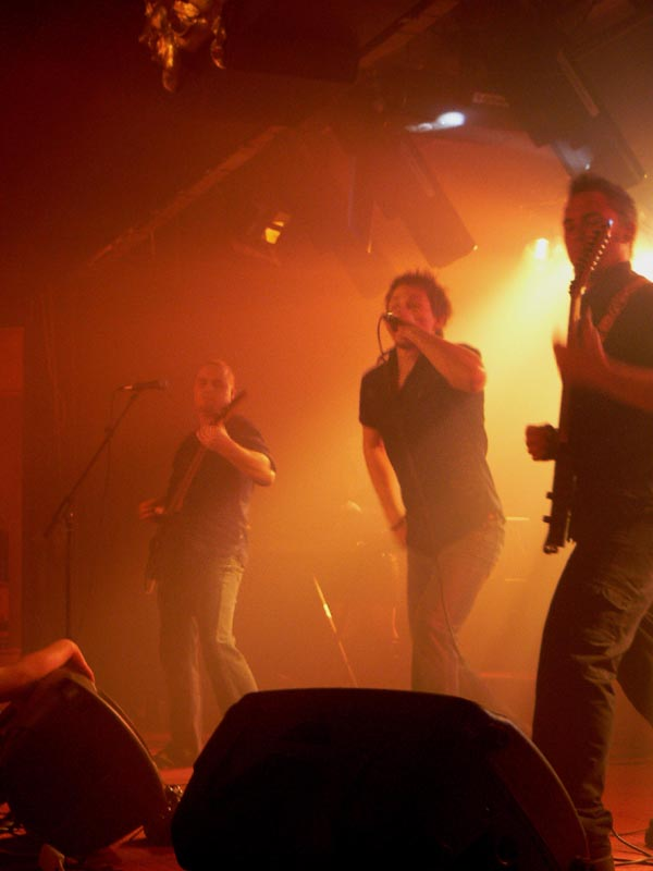 Live shot at show